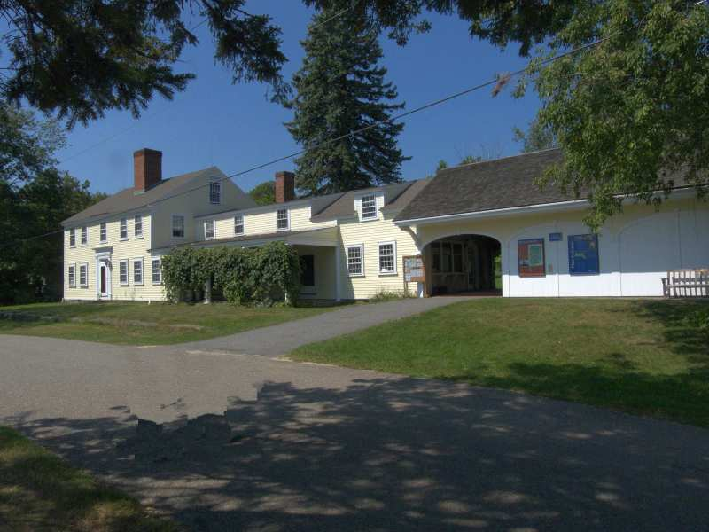 Former Goodnow Inn, Princeton, Massachusetts, currently the headquarters of the Audubon Wachusett Meadow Wildlife Sanctuary